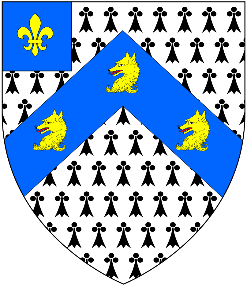 Arms of Fox (Baron Holland) & Fox (Earl of Ilchester): Ermine, on a chevron azure three fox heads and necks erased or on a canton of the second a fleur-de-lys of the third. The canton is an augmentation of honour to his paternal arms, granted out of the Royal Arms as a mark of esteem to Sir Stephen Fox (1626-1716) and his heirs forever, by King Charles II following the Restoration of the Monarchy(Debrett's Genealogical Peerage of Great Britain and Ireland, London, 1847, p.422 (Earl of Ilchester)[1]). Sir Stephen Fox had remained with King Charles II during his exile in France.